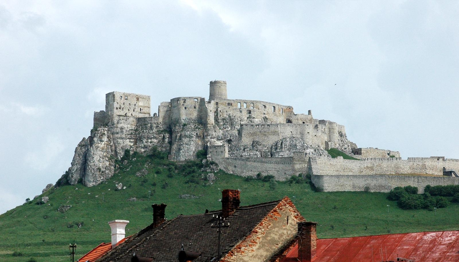 Spiš Castle